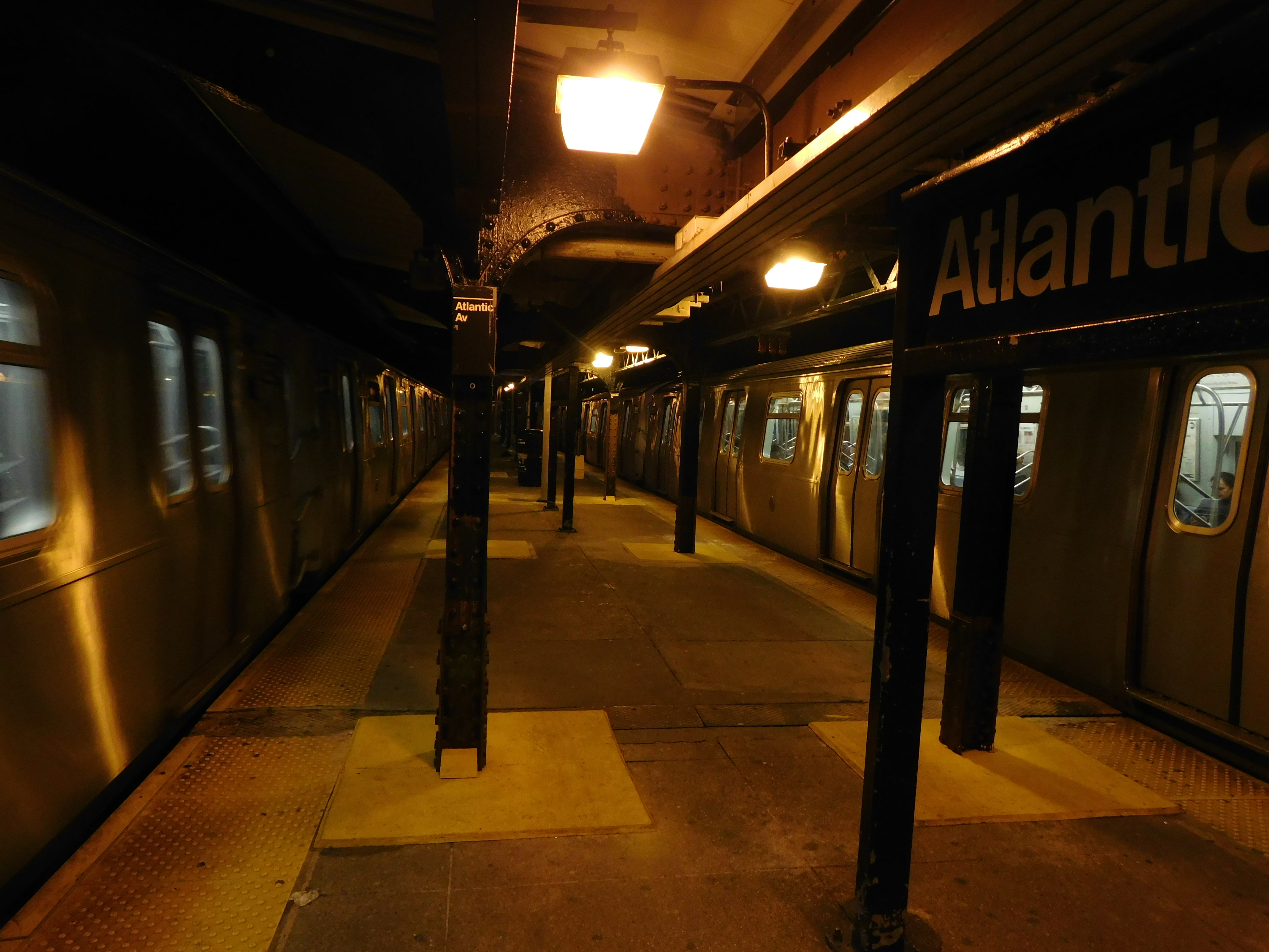 East New York, Brooklyn, New York